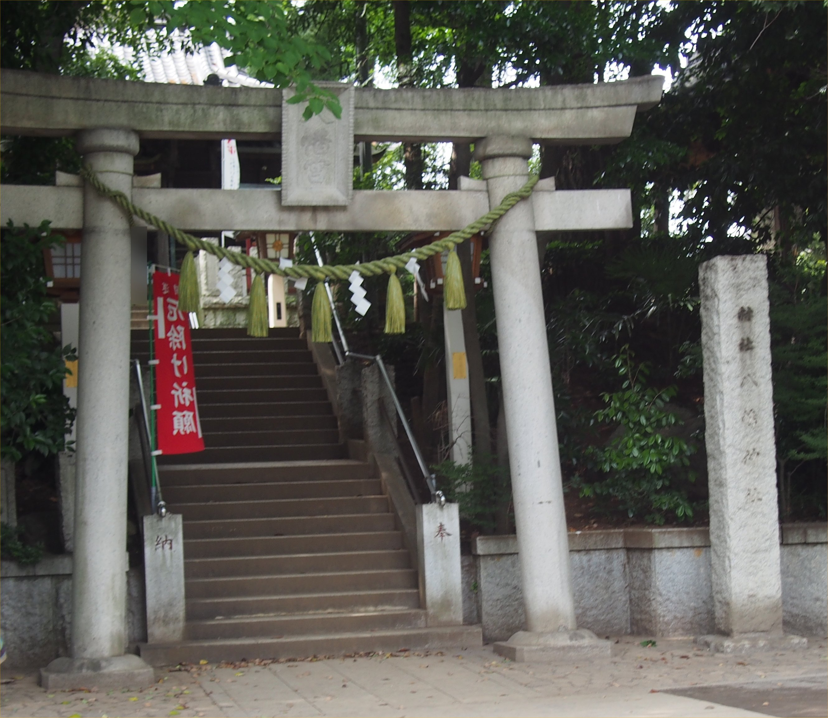 A photo of Senzoku Hachiman Jinja,Minamisenzeku,Ota-ku,Tokyo,Japan.